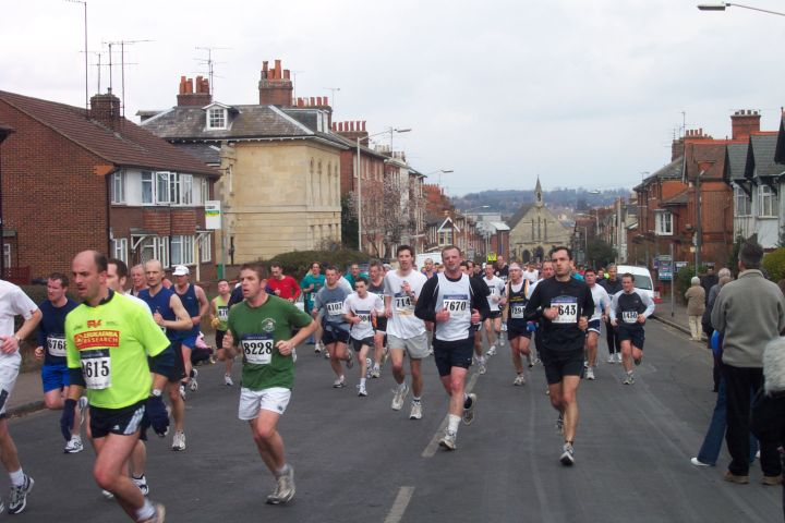 Reading Half Marathon in 2004, seen climbing Russell Street in Reading in England.